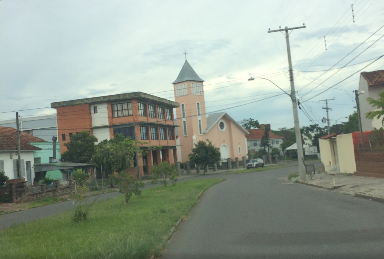 Guarujá, a neighborhood in Porto Alegre